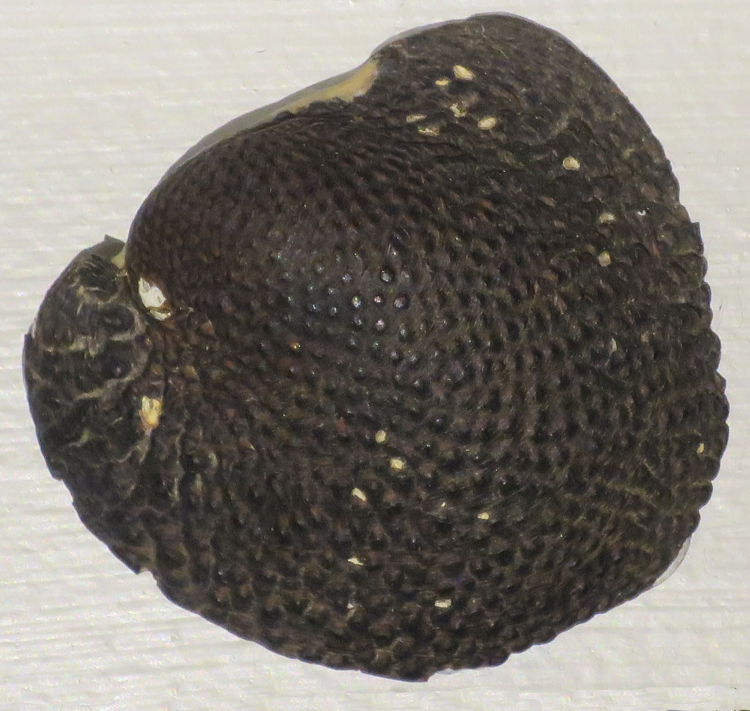 Neritina granosa, Lyman House Memorial Museum